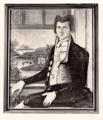 Portrait of composer Timothy Swan (1758-1843), sometime resident of Suffield, Connecticut. Swan was born in Worcester, Mass., and apprenticed as a hat maker. He later briefly attended singing school, and learned to play the flute in 1776 as a member of the Continental Army. Swan is well-known for the hymns he composed.